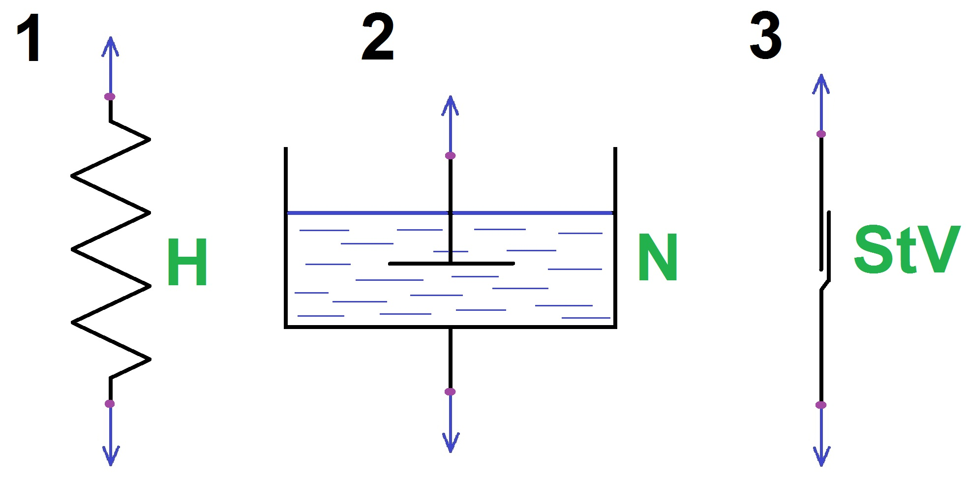 Schematic representation of three types of rheological behavior of the body using simple models: 1 - elastic deformation (Hooke's law); 2 - Newton's body; 3 - the body of the Saint-Venant